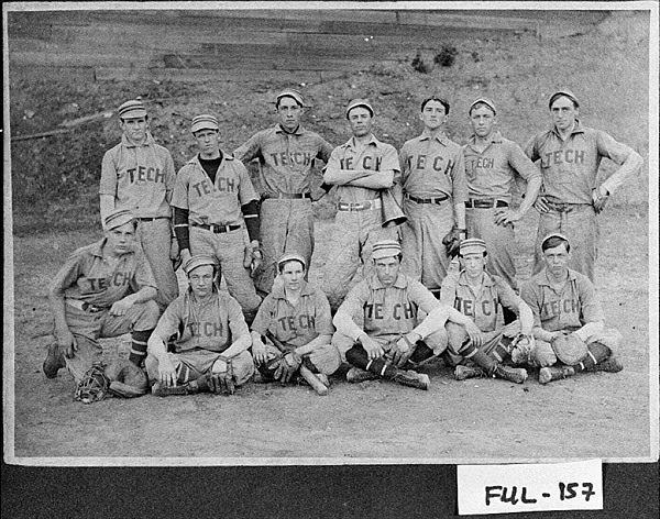 Members of the 1907 baseball team at the Georgia School of Technology pose in their new uniforms.